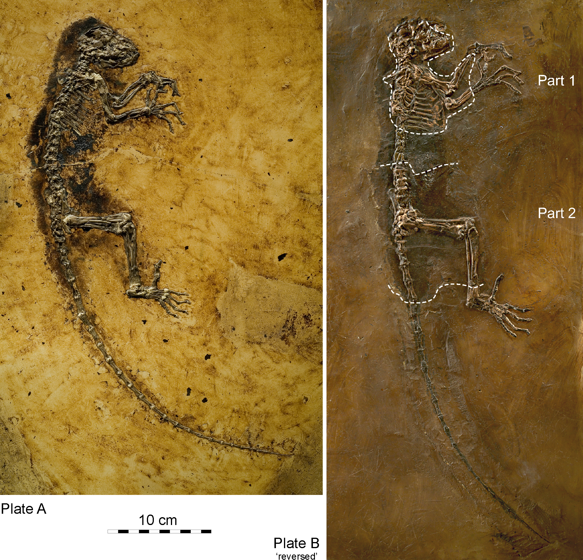 Darwinius masillae, new genus and species, from Messel in Germany. Plate A (PMO 214.214) showing holotype skeleton in right lateral view. (B)— Plate B (WDC-MG-210) left side of holotype (reversed for comparison with plate A). Plates show part and counterpart of the same skeleton. Plates have different museum numbers because they are in different museum collections. Note the exceptional completeness of the articulated skeleton in plate A, with left and right hands and the right foot complete, including distal phalanges, and the tail complete to the tip. Stained matrix shows the soft-tissue body outline. Abdomen contains organic remains of food in the digestive tract. All of plate A and parts 1 and 2 on plate B (enclosed in dashed lines) are genuine; remainder of plate B was fabricated during preparation.